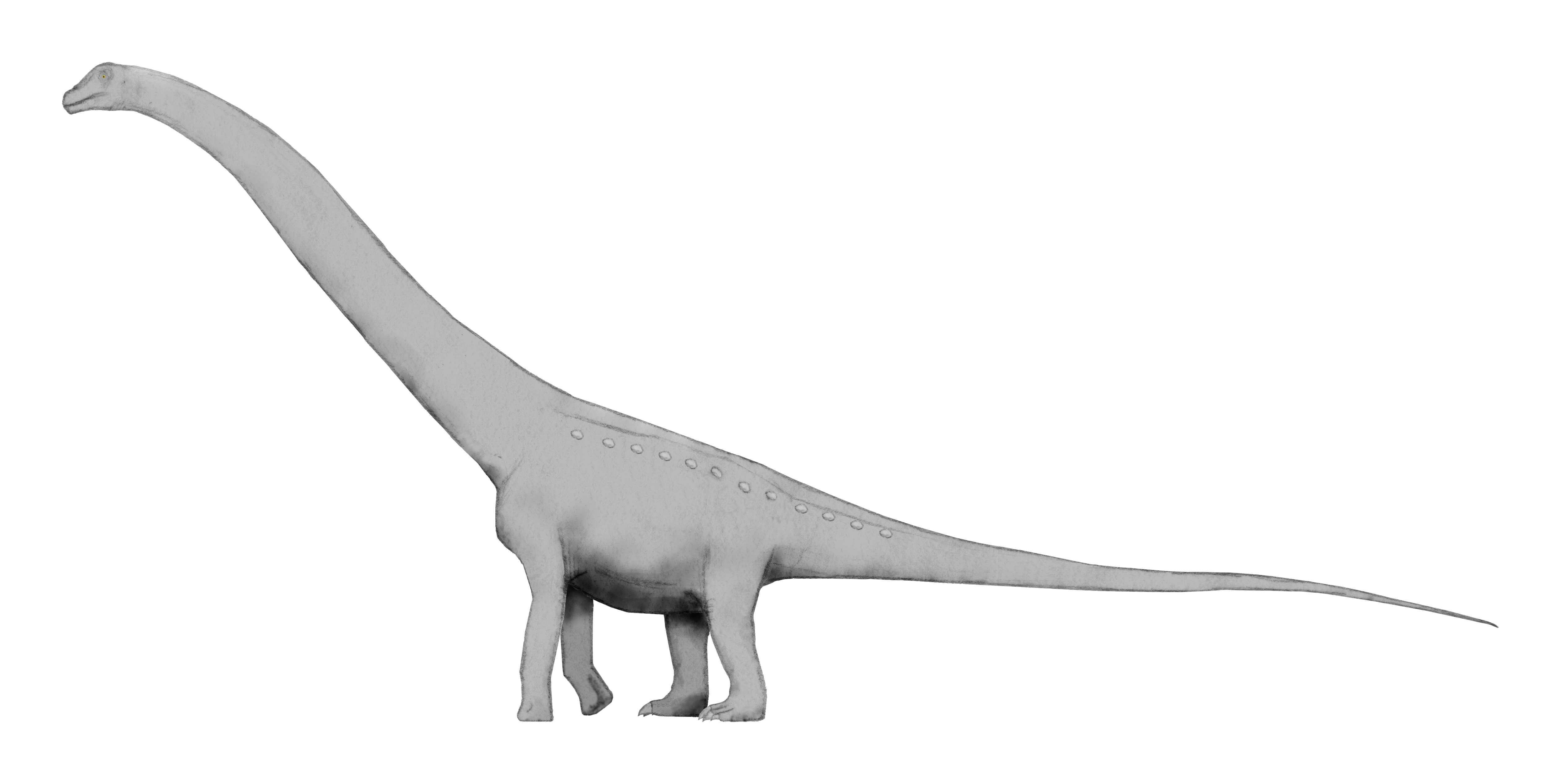 Sketch of Puertasaurus